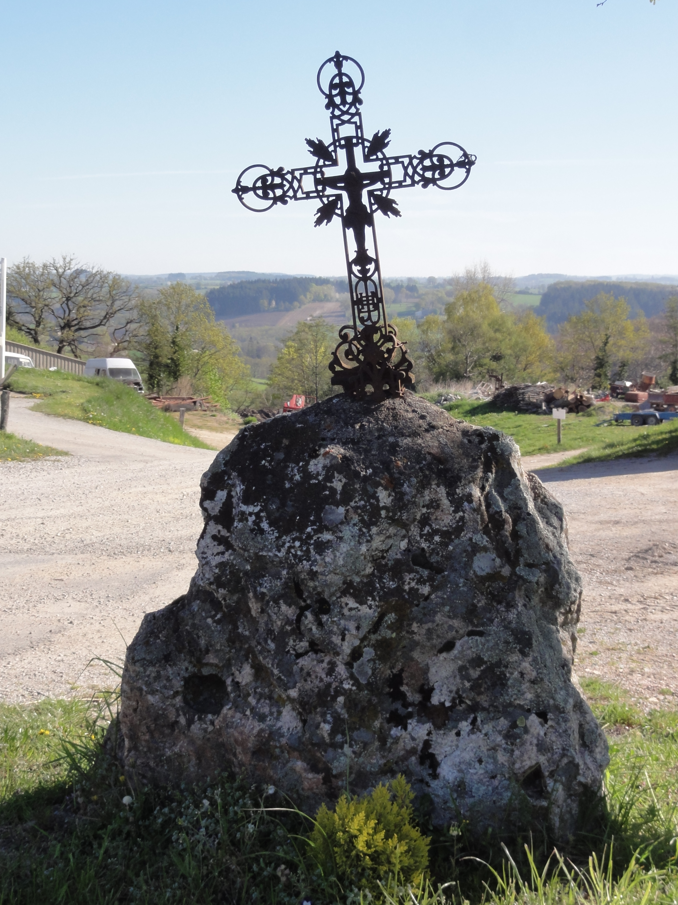 Saint-Maurice-près-Pionsat (Puy-de-Dôme) croix de chemin près de la mairie